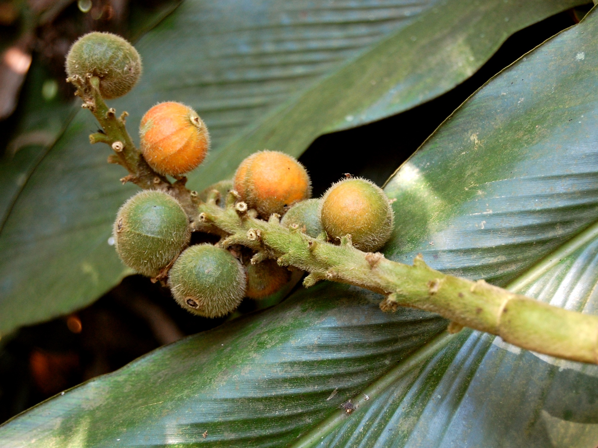 Alpinia (Catimbium) malaccensis; fruiting panicle. From Bogor, West Java, Indonesia.